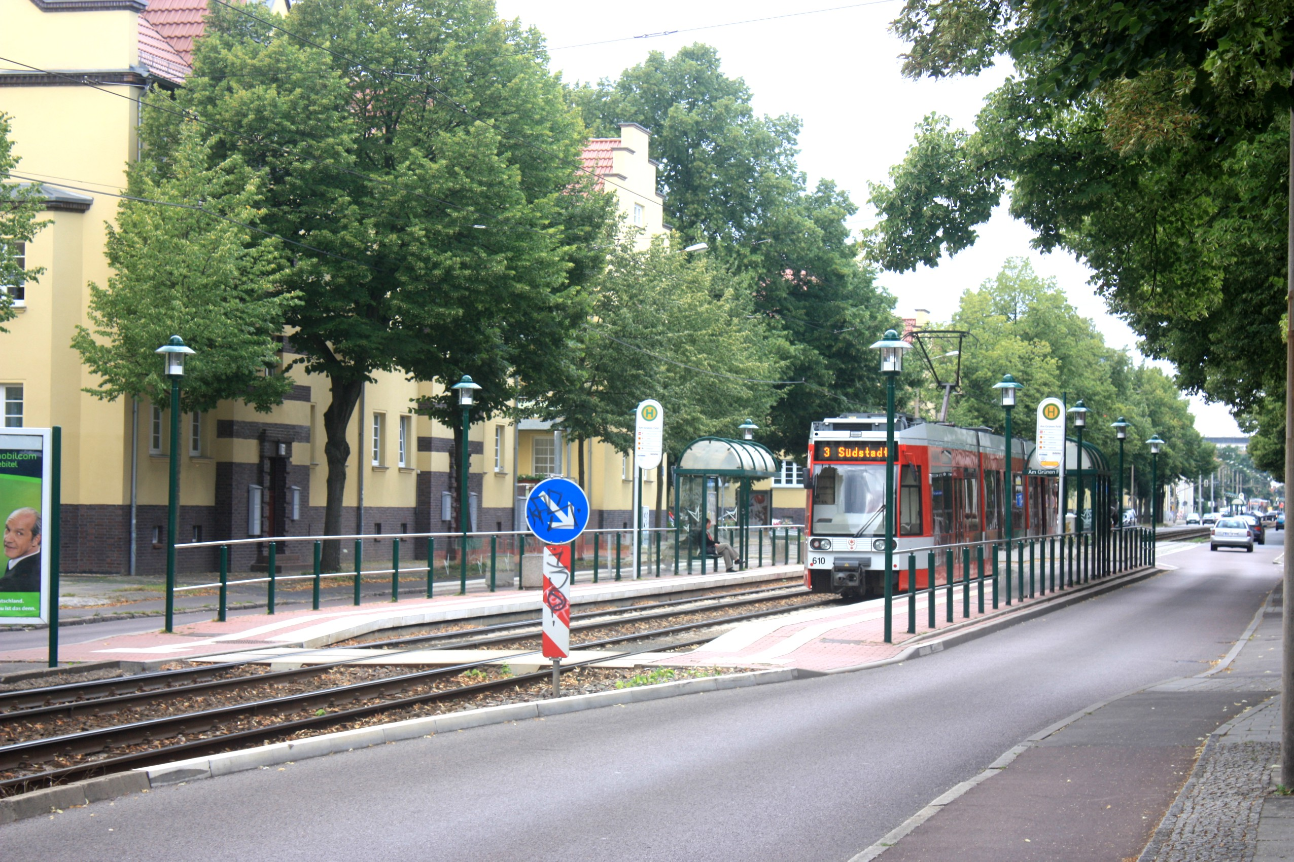 Halle (Saale), the street "Damaschkestraße"